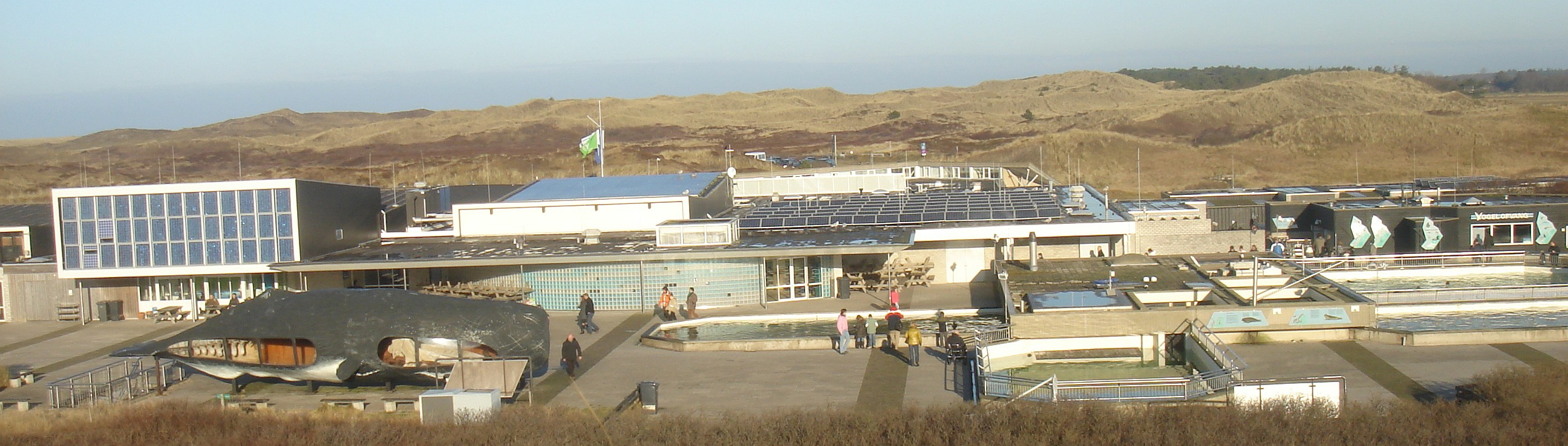 The museum and aquarium Ecomare on the dutch island of Texel seen from the dunes. Middle part.